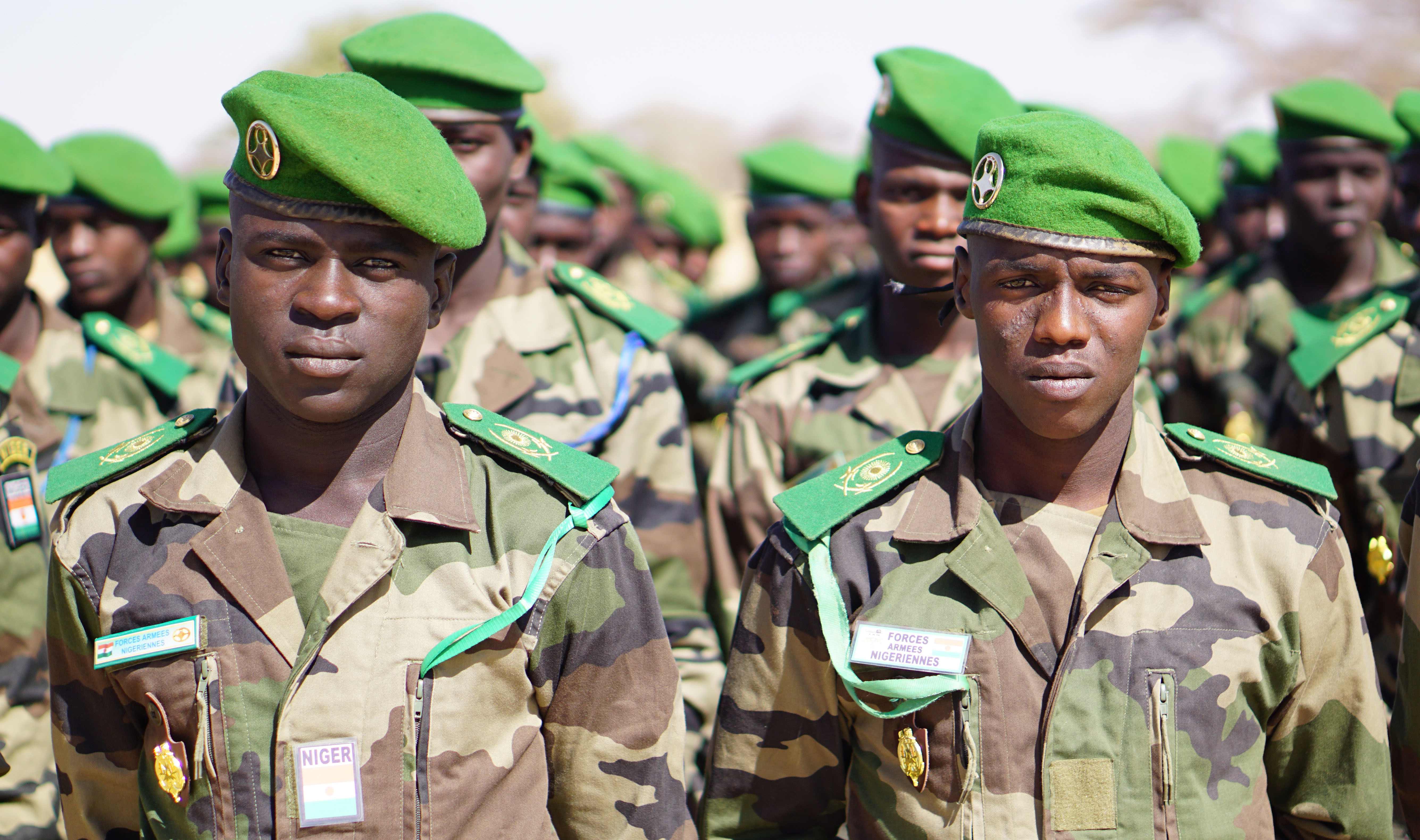 Nigerien armed forces participate in the opening ceremonies of Flintlock 2017 in Diffa, Niger, Feb. 27, 2017. Flintlock is a multinational Special Operations Forces exercise geared toward building interoperability among African and western nations. (U.S. Army photo by Spc. Zayid Ballesteros) Unit: 3rd Special Forces Group (Airborne) DVIDS Tags: Canada; United States; Australia; Belgium; 3rd Special Forces Group; SOCAfrica; Niger; SOCAF; Special Operations Command Africa; Diffa; Flintlock17; Flintlock 2017; SOCFWD-NWA